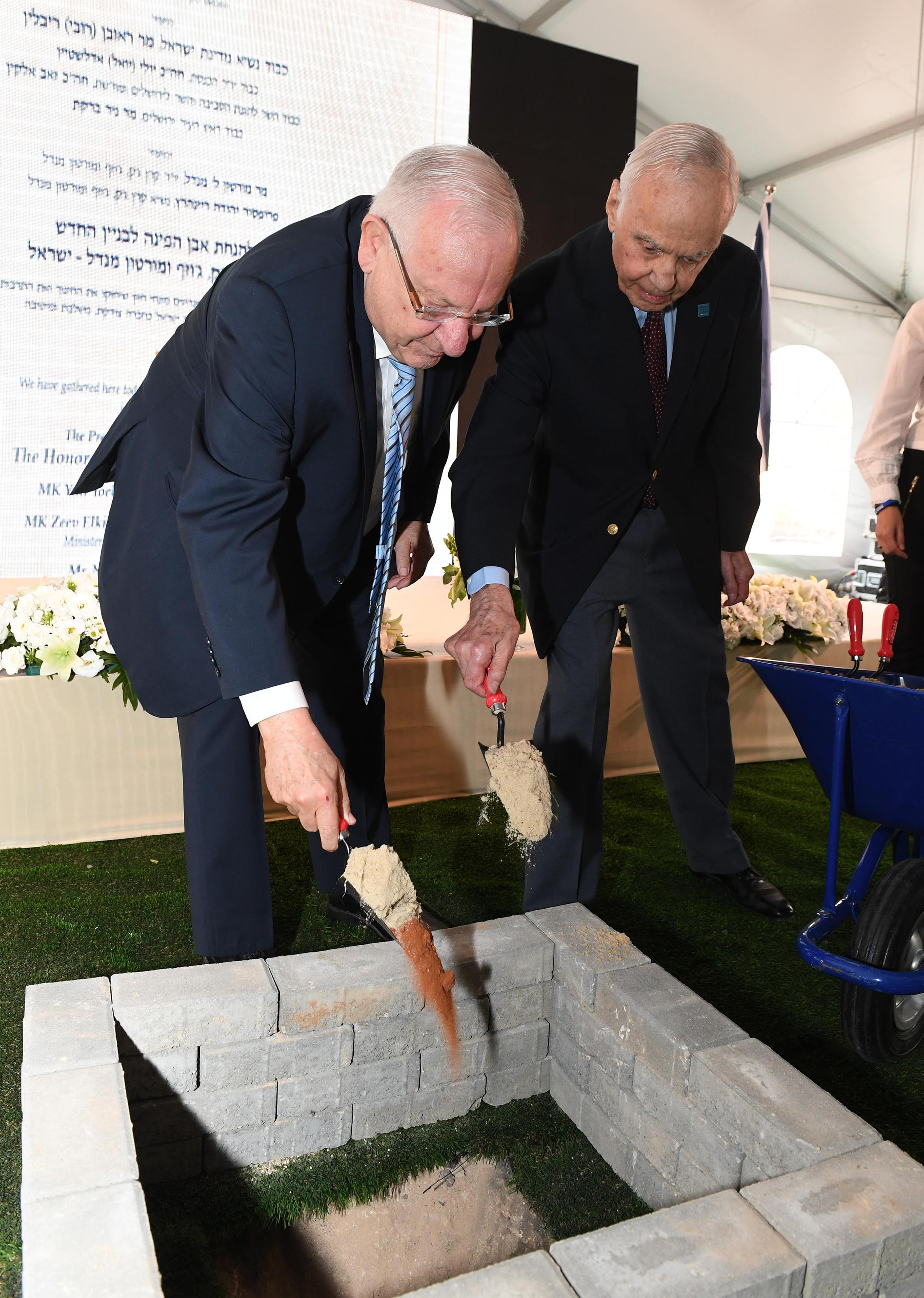 President of the State of Israel, Reuven Rivlin, at the laying of the cornerstone of the new building of the Mandel Foundation-Israel in Jerusalem. Monday, October 30, 2017. Photo Credit: Mark Neyman / GPO.